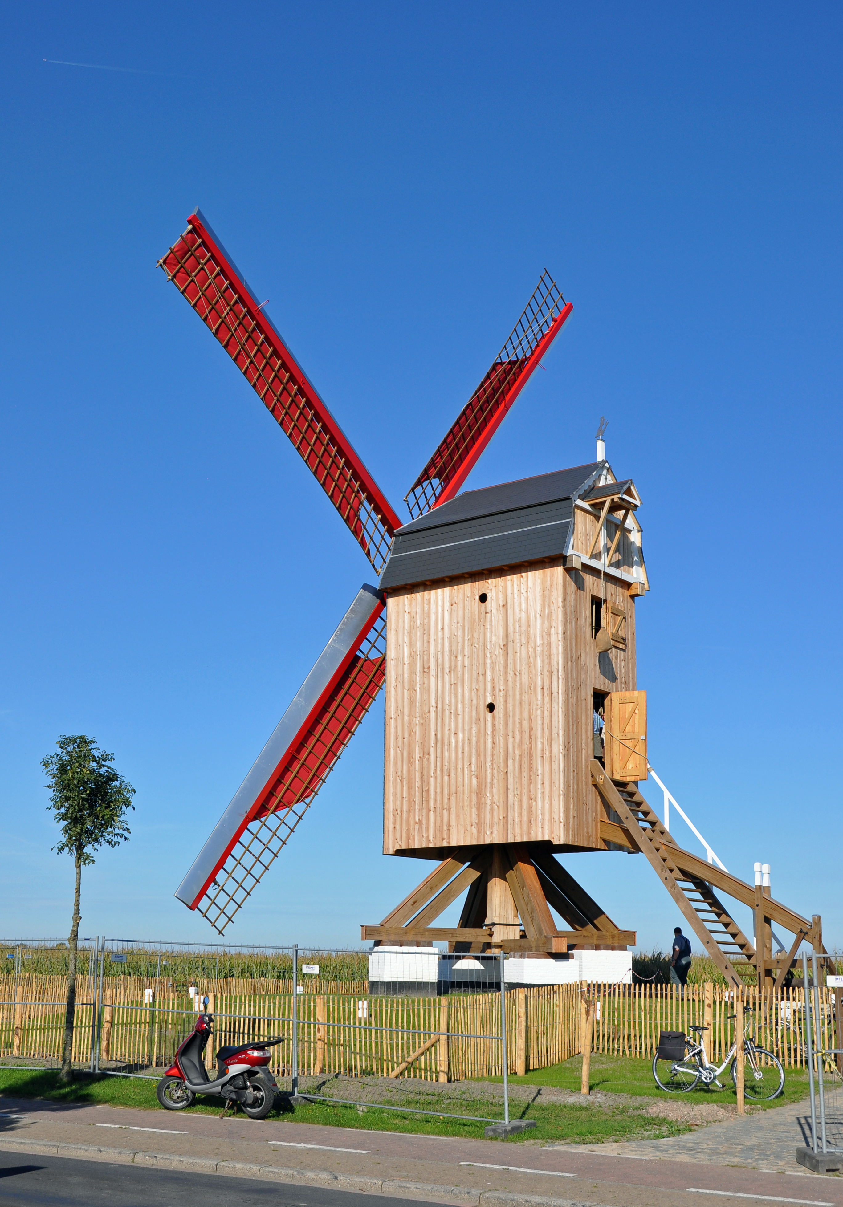 Klemskerke (De Haan, Belgium): Geersens windmill